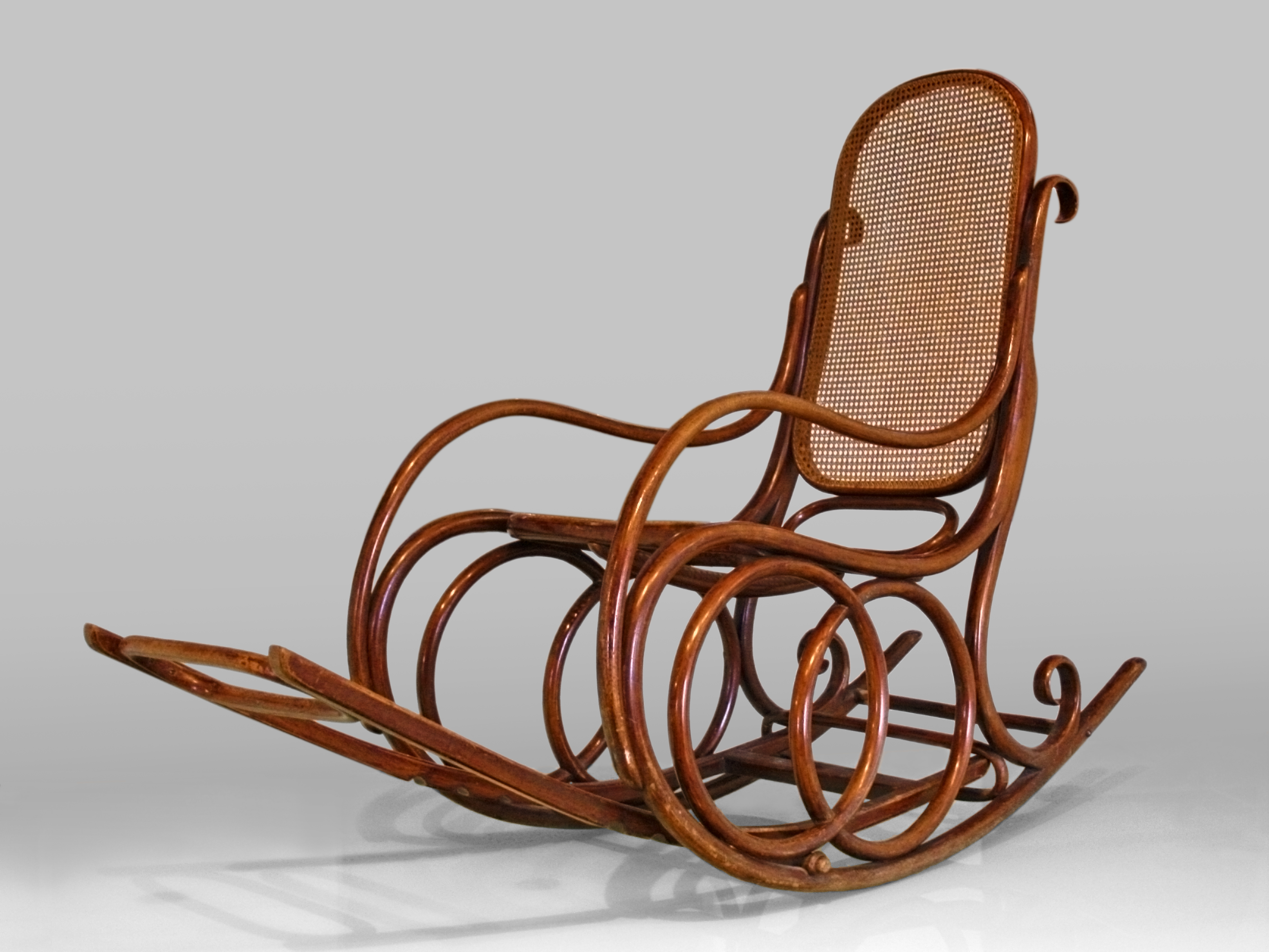 Rocking chair made by Thonet-Mundus, number B 804 with feets support (in catalogue under chair no. B 829).